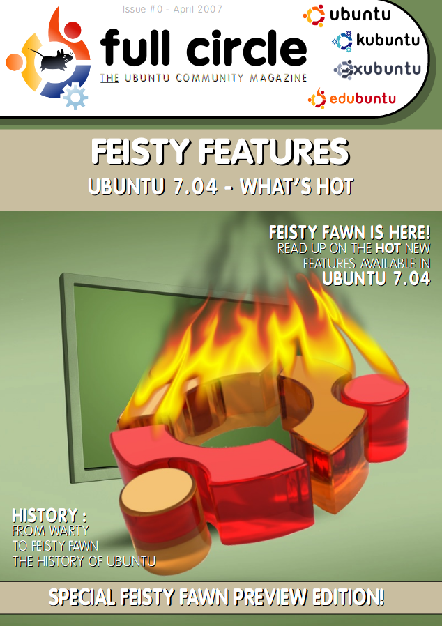 Cover of Full Circle Magazine Issue 0 April 2007